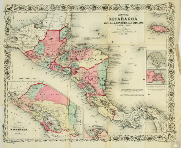 Map of Central America with inset of Nicaragua published in William Walker, The War in Nicaragua (1860).